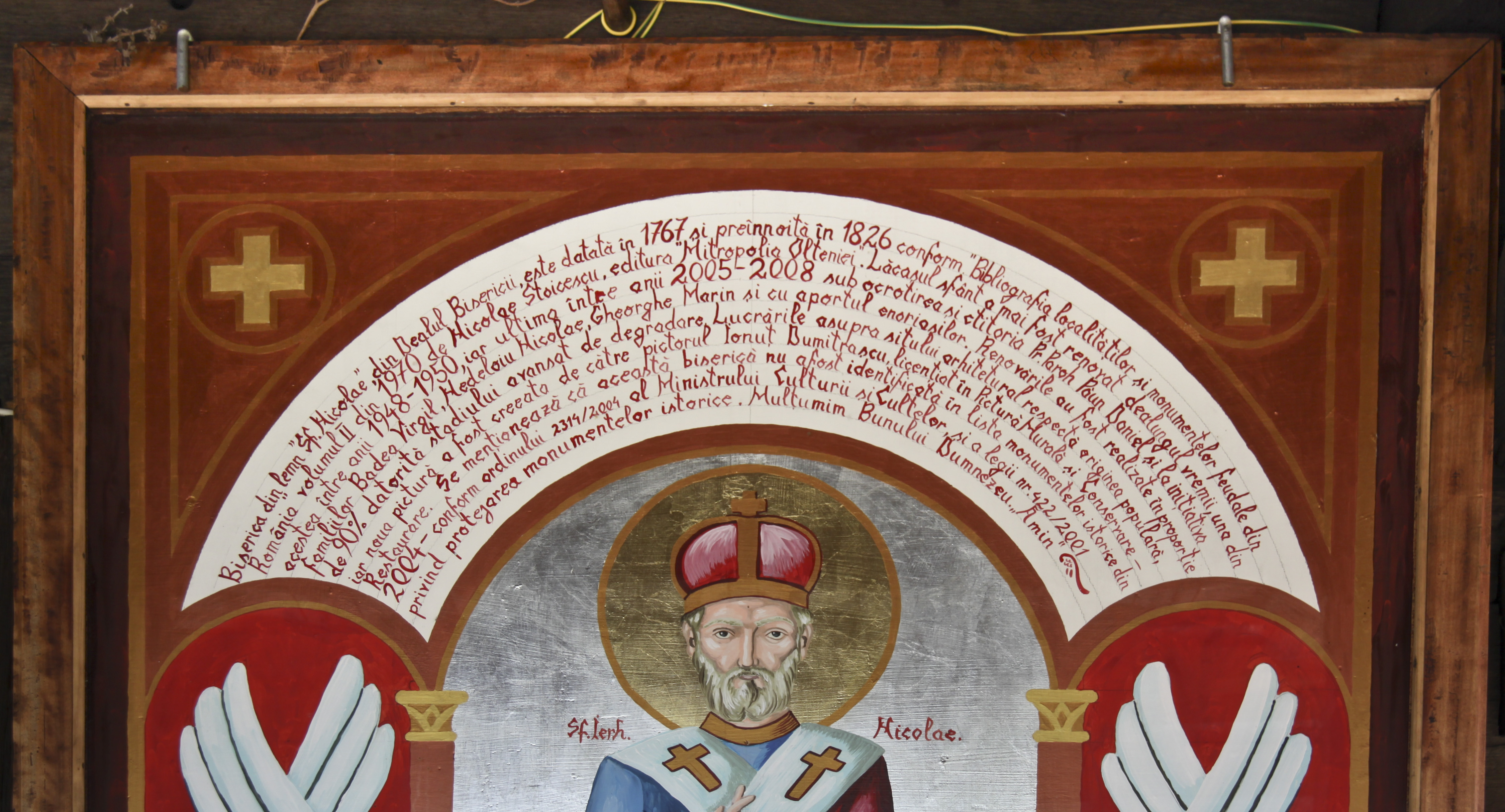 Dealu Bisericii, Vâlcea county, Romania: the wooden church.